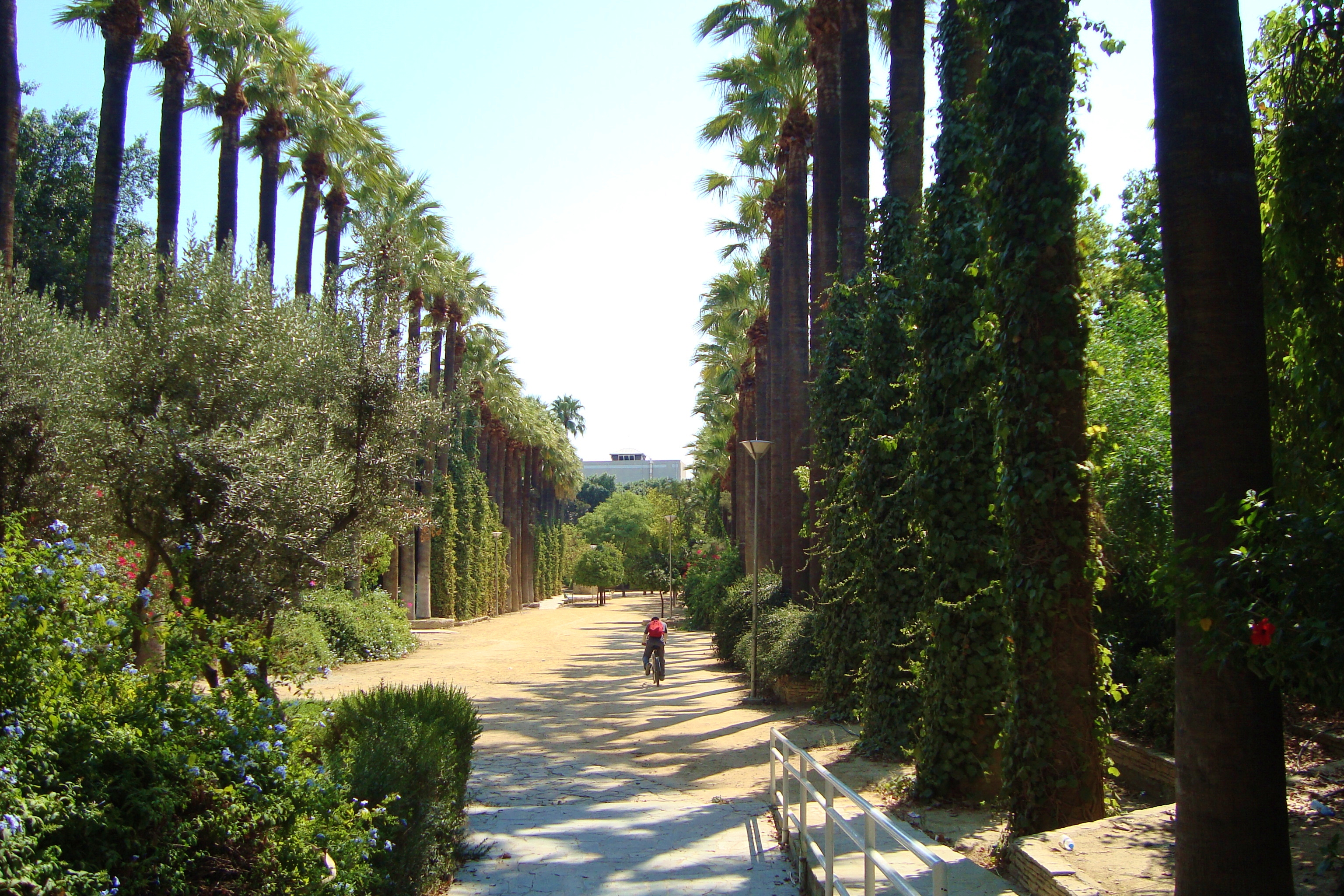 Historical Nicosia Municipal Gardens - in Republic of Cyprus.